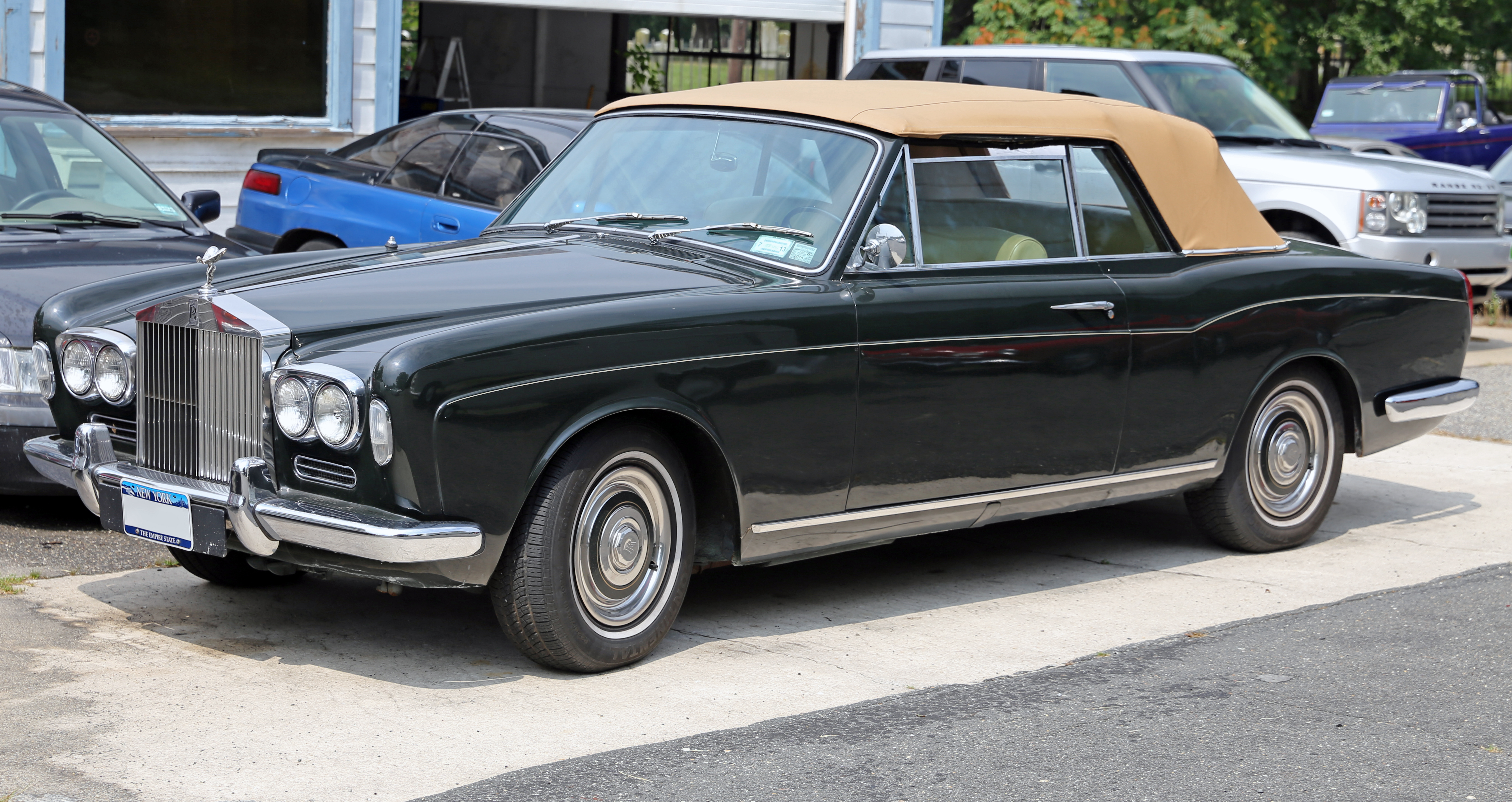 A 1967 Rolls-Royce Silver Shadow Convertible by Mulliner Park Ward, at a garage in Water Mill, NY. Must have been built verrrry late in 1967 judging by the chassis number.